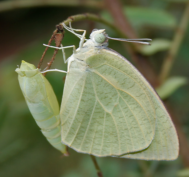 Mottled Emigrant Catopsilia pyranthe in Hyderabad , India.